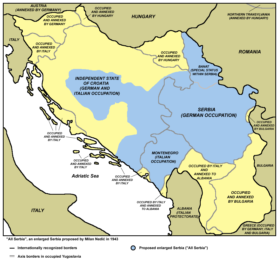 "All Serbia", an enlarged Serbia proposed by Milan Nedić in 1943.